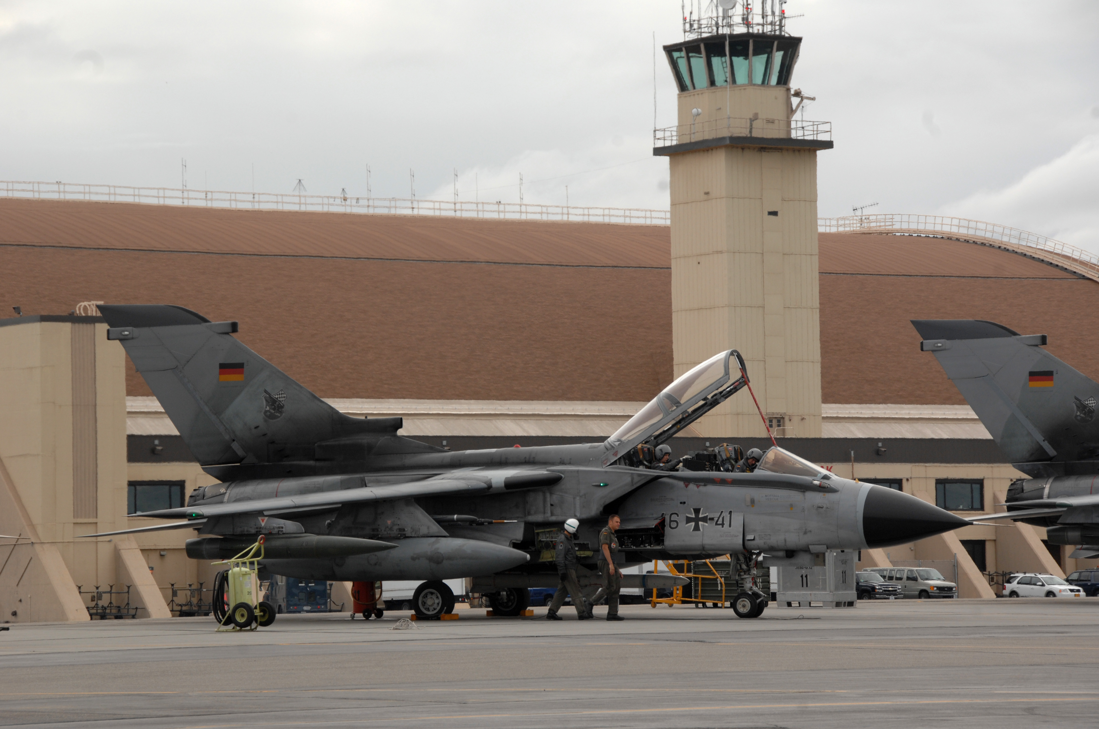 German Luftwaffe (Air Force) crew chiefs go through a pre-flight inspection of a Panavia Tornado ECR "Wild Weasel" aircraft (s/n 46+41) during the "Red Flag-Alaska 08-3" exercise on 12 June 2008 at Eielson Air Force Base, Alaska (USA). The Germans were participating in RF-A 08-3, a 10-day air combat training exercise held up to four times a year over Alaskan and Western Canadian airspace. Thr Tornado was from Jagdbombergeschwader 32 (JaboG 32) (32nd Fighter-Bomber Wing) at Lechfeld, Bavaria, Germany. Note the AGM-88 HARM anti-radiation missile on the Tornado.